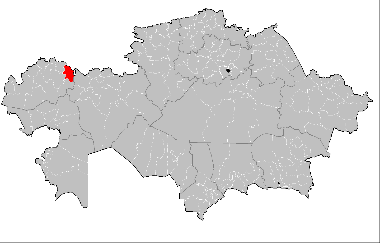 Map of Chingirlau District in Kazakhstan. for public domain use, using MapInfo Professional v8.5 and various mapping resources.